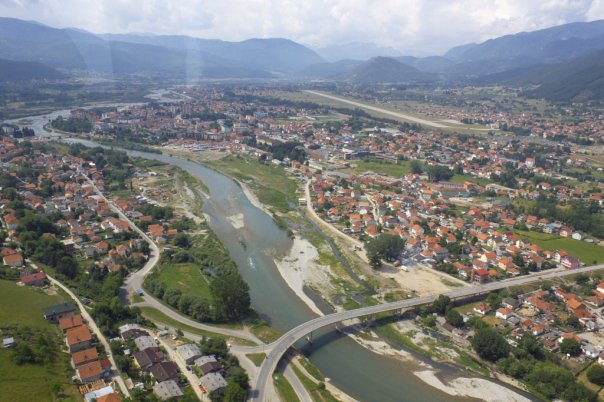 Berane